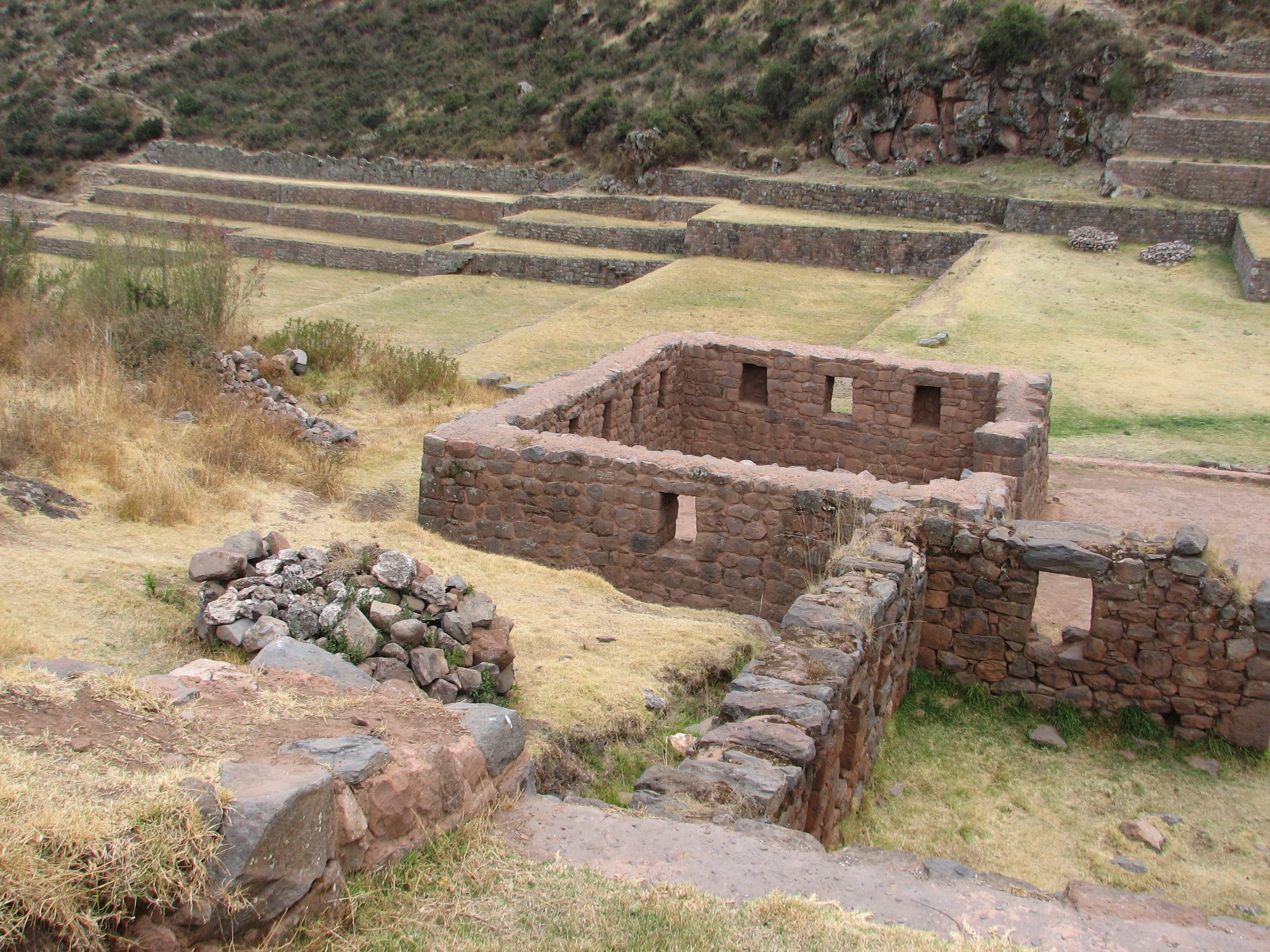 Tipón Archaeological site (house)